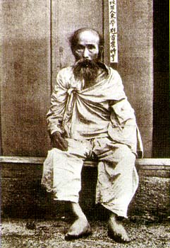 Choe Si-hyong, 2nd leader of the Donghak movement upon his capture, 1898.